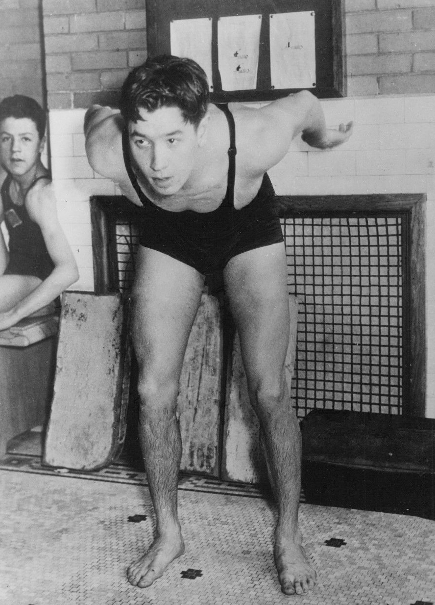 1931 Swimming Champ James Gilhula 1930s Press Photo